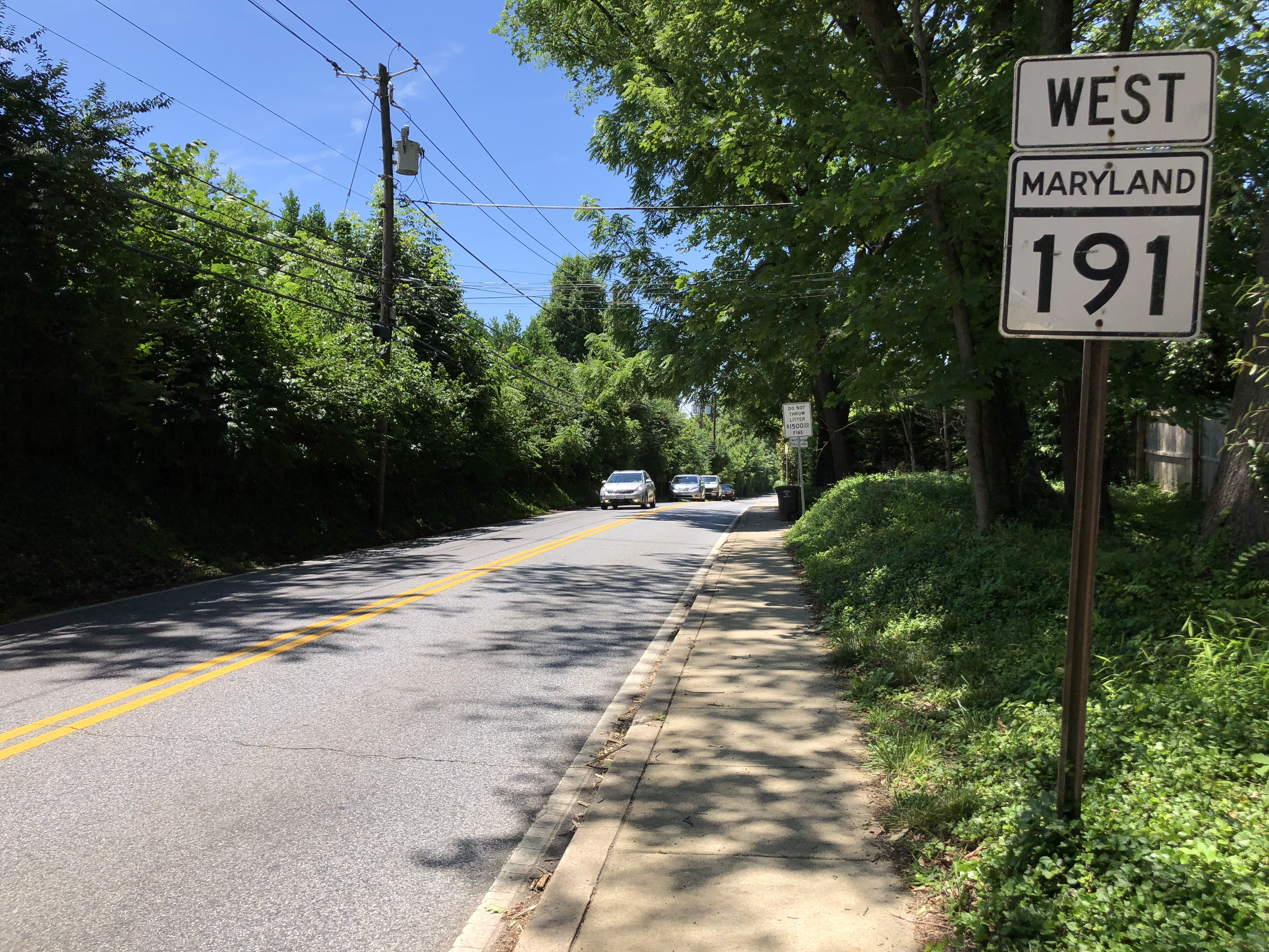 View west along Maryland State Route 191 (Bradley Lane) just west of Maryland State Route 185 (Connecticut Avenue) within the Town of Chevy Chase, Montgomery County, Maryland